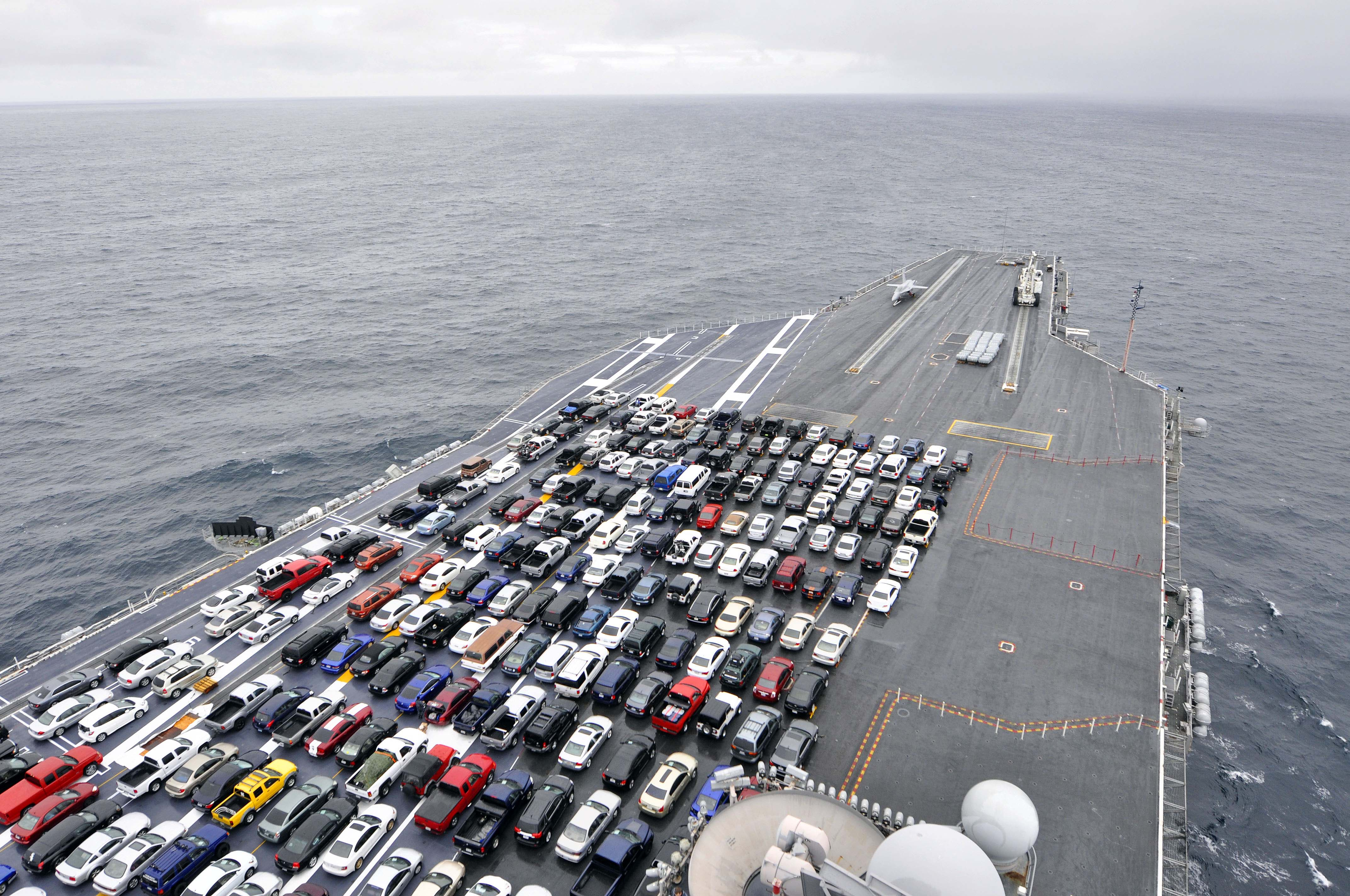 PACIFIC OCEAN (Jan. 9, 2012) The aircraft carrier USS Ronald Reagan (CVN 76) transports Sailors' vehicles while transiting the Pacific coast to Naval Base Kitsap during its homeport change for a scheduled dock-planned incremental availability maintenance period. (U.S. Navy photo by Mass Communications Specialist 3rd Class Shawn J. Stewart/Released)